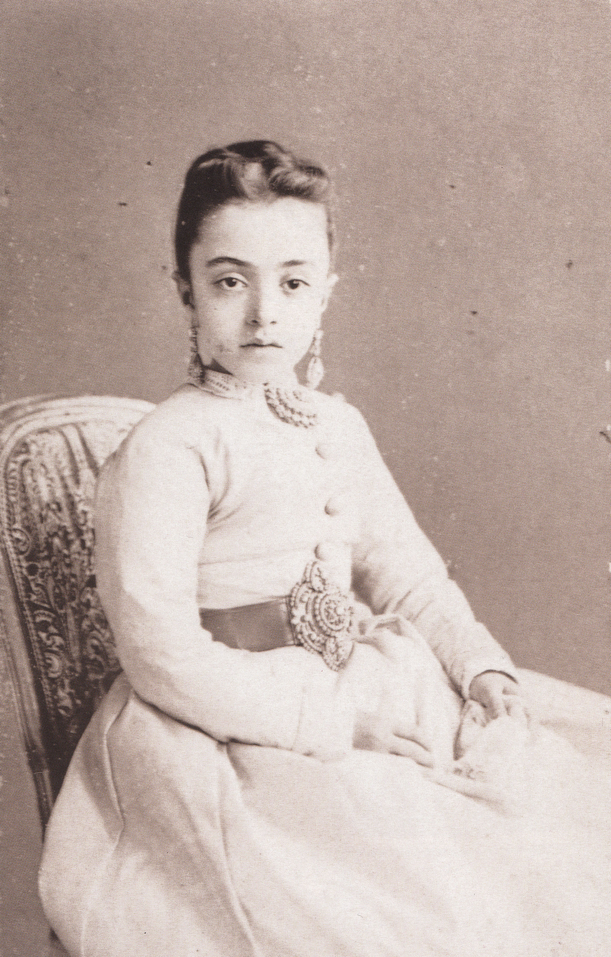 The 11 year old Princess Sâliha Sultana, daughter of Sultan Abdülaziz (1830-1876) and of the Georgian Dürrünev Kadın Efendi (1835-1892), and sister of Yusuf İzzettin Efendi on her visit card made by the Abdullah Brothers in 1873.